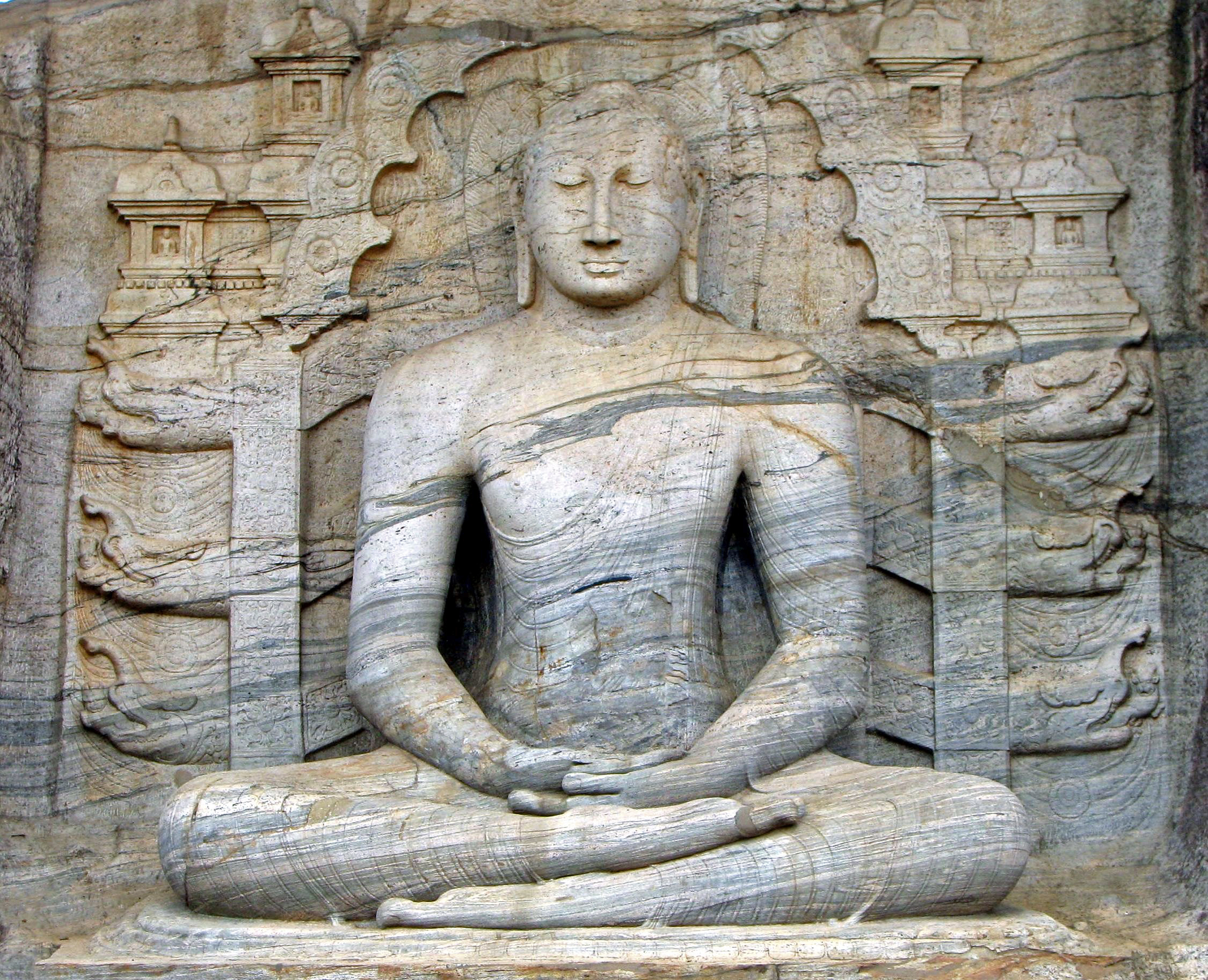 Seated Buddha, Gal Viharaya, Polonnawura, Sri Lanka